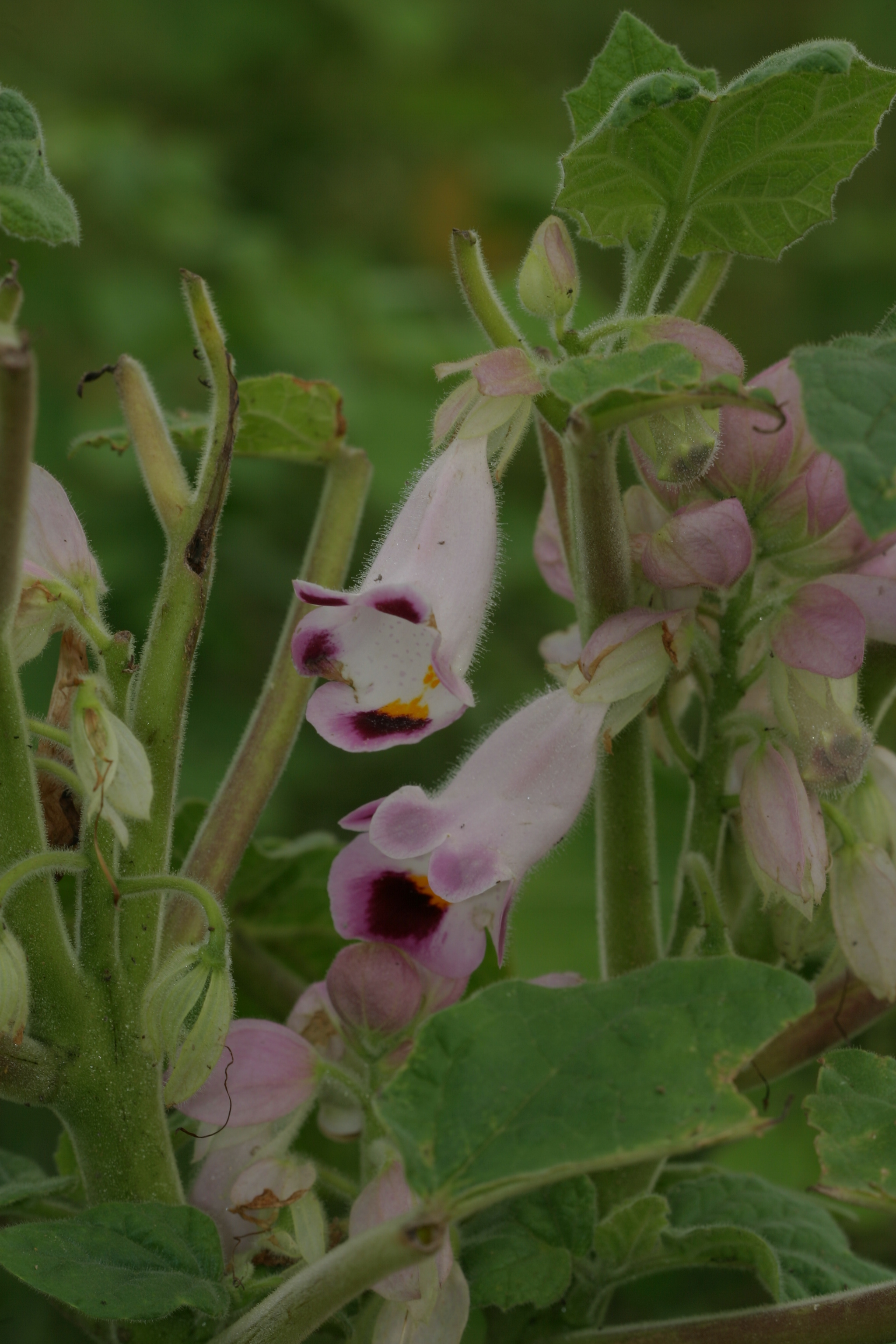 wild flowers_central india